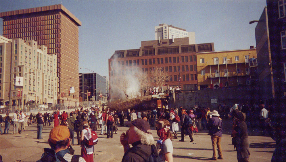 Protests during the 3rd Summit of the Americas on 21 April 2001 in Quebec City at the intersection of Boulevard Honoré-Mercier and Saint-Jean Street. Tear gas and the chain link wall around the conference precinct are seen. Personal snapshot by Montréalais.